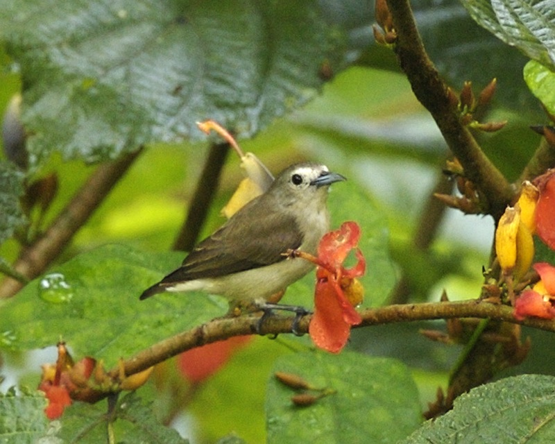 Plain Flowerpecker (Dicaeum concolor) ssp Dicaeum concolor concolor "Nominate SW Indian race has darker olive brown upperparts and paler greyish white underparts" - Grimmett Location: Thattekad, Kerala, India Date: 8th. October 2007 _Q0S0049